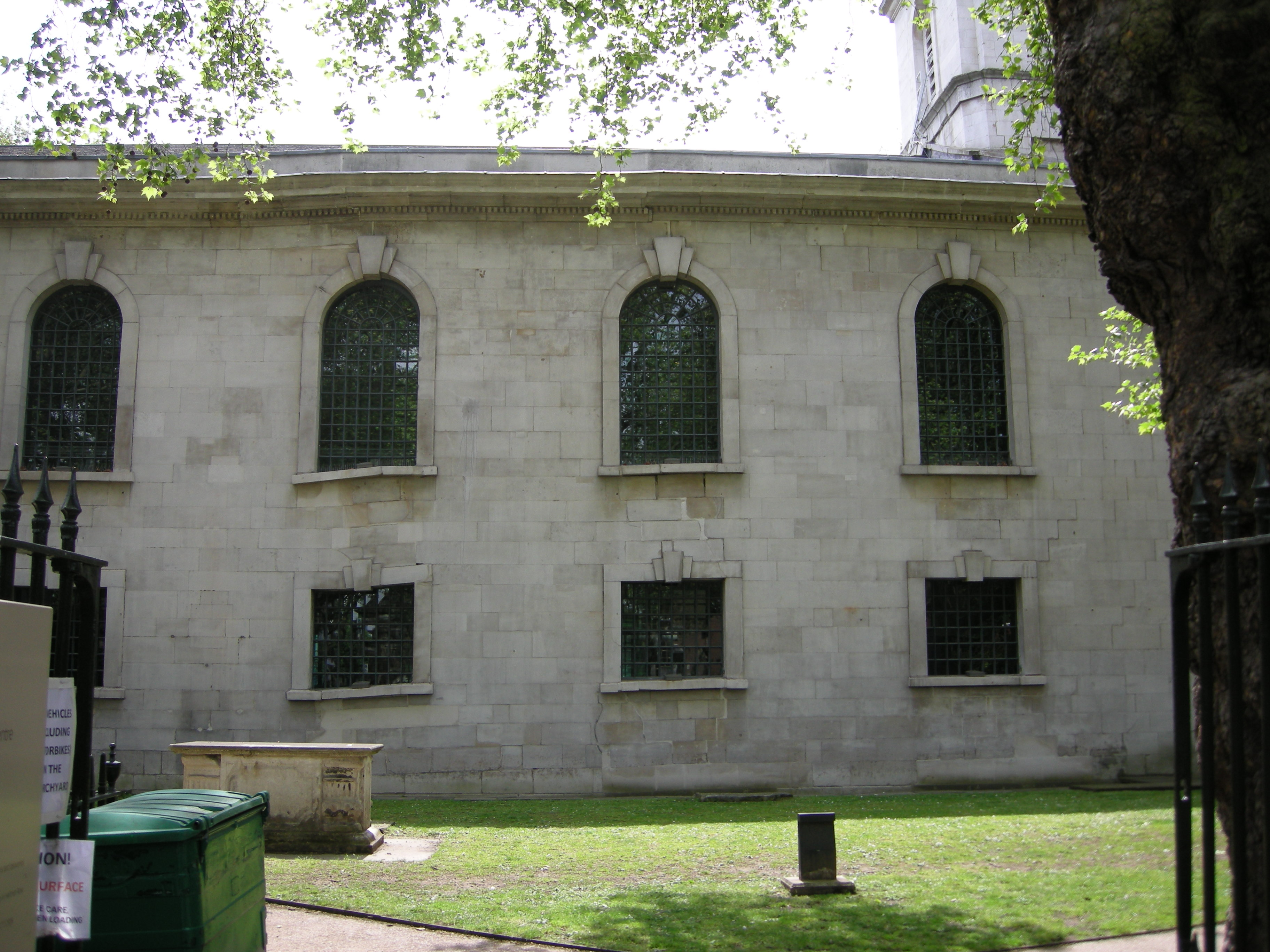 The north side of the church of St Luke Old Street, London, showing (in the distortion of the windows) evidence of the subsidence which made it necessary for the church to be closed.